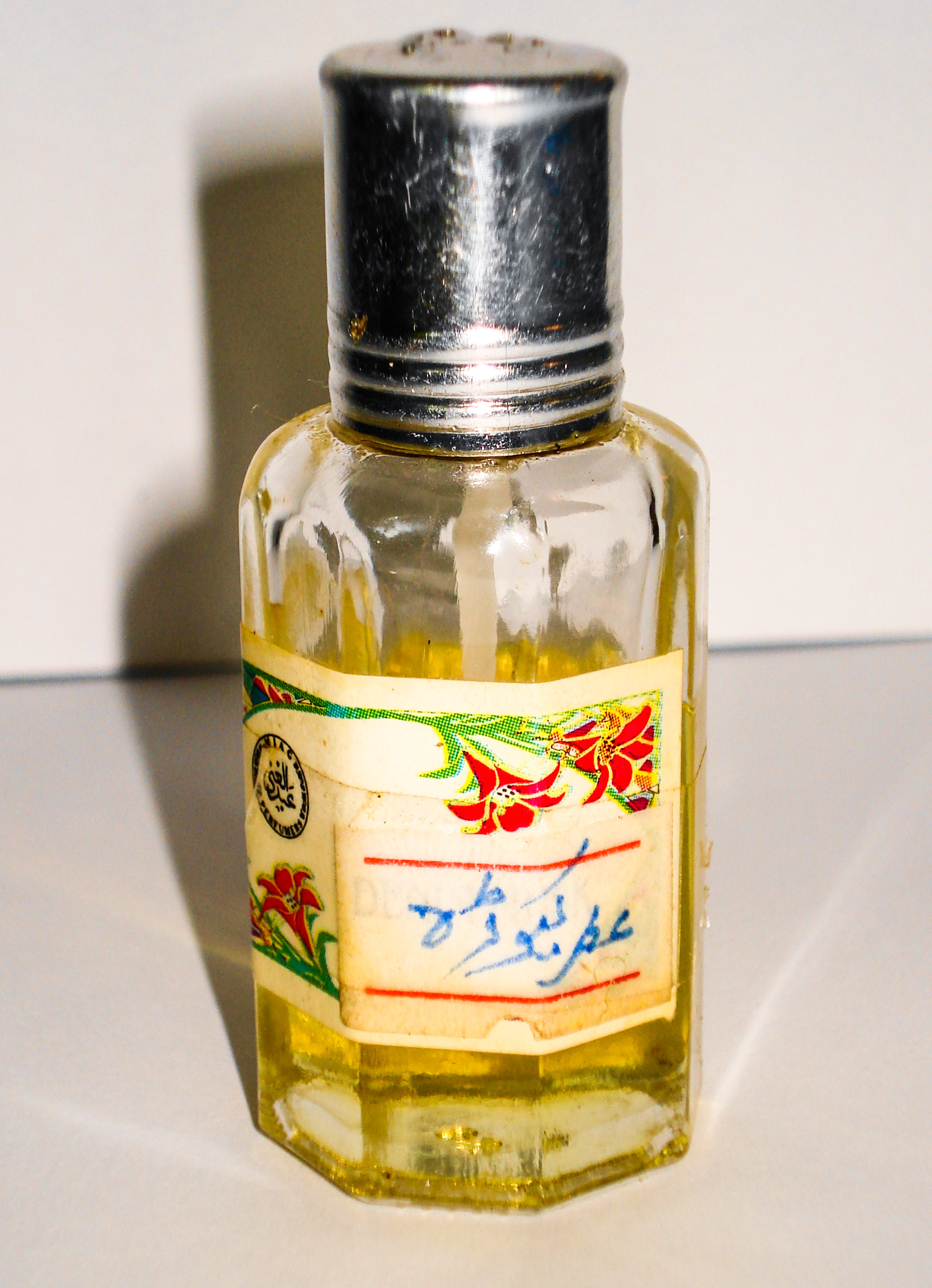 Pure Kewra, it is used flavoring of Kheer, Qorma, Biryani